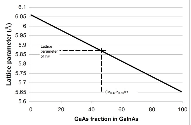 Jpeg showing Wagner's measurements of lattice parameter